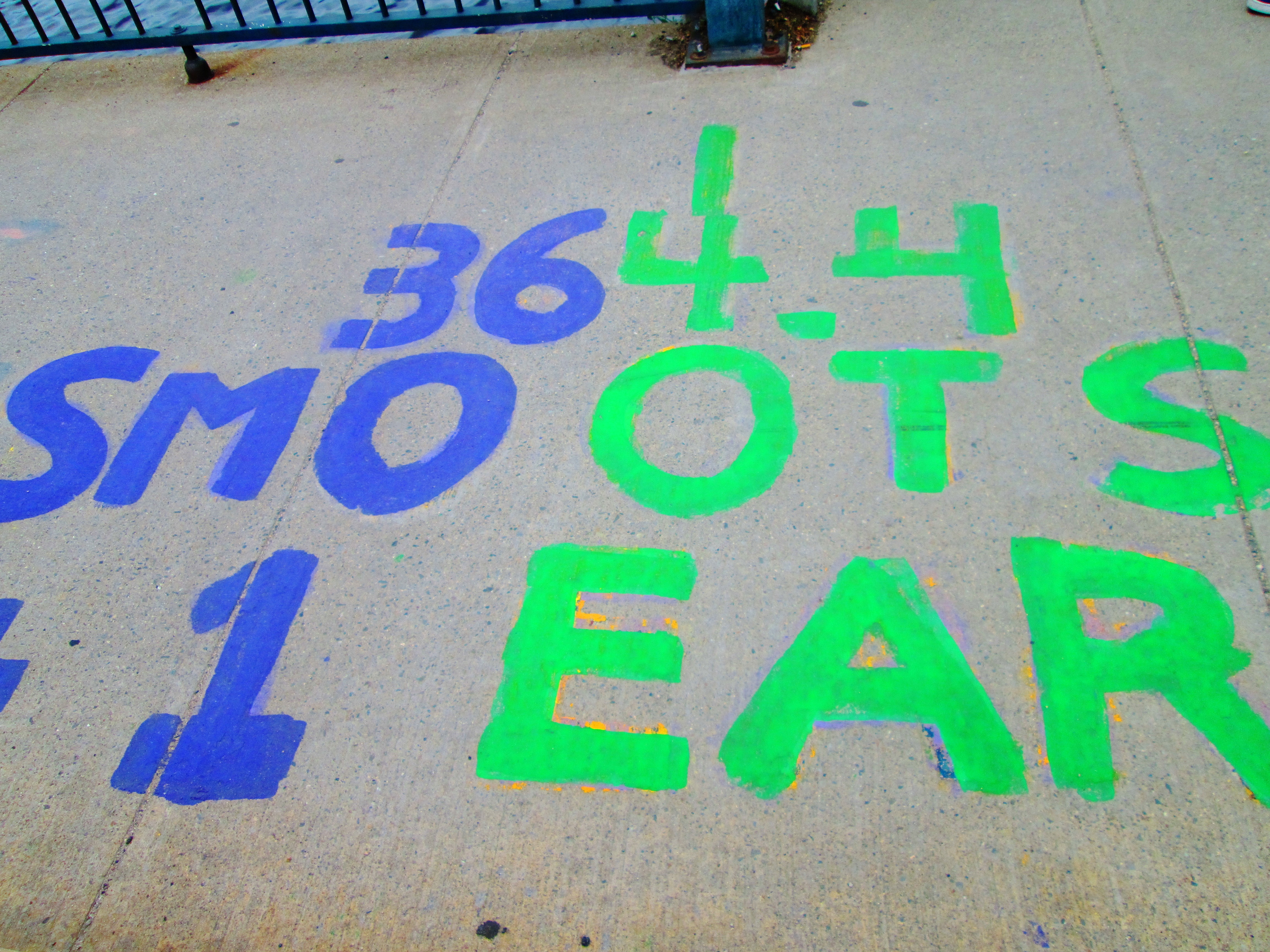 The measurement of the length of the Harvard Bridge in Smoots, on the Cambridge, Massachusetts side of the bridge.